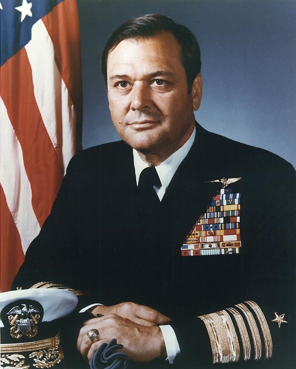 ADM James L. Holloway III from [1]